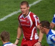 Harlequins vs Salford 2009 Murrayfield Magic